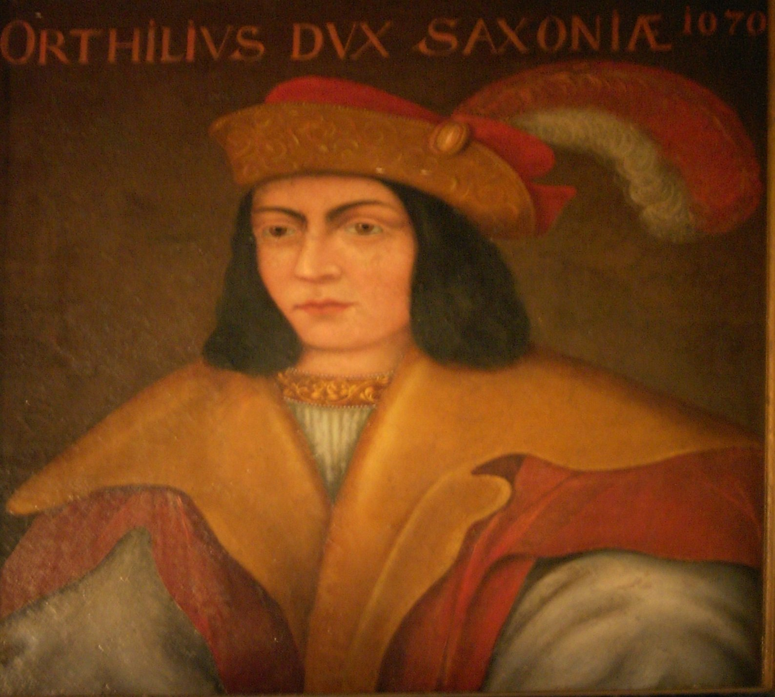 probably Herzog Ordulf von Sachsen aka Otto. in a gallery of ancestors.